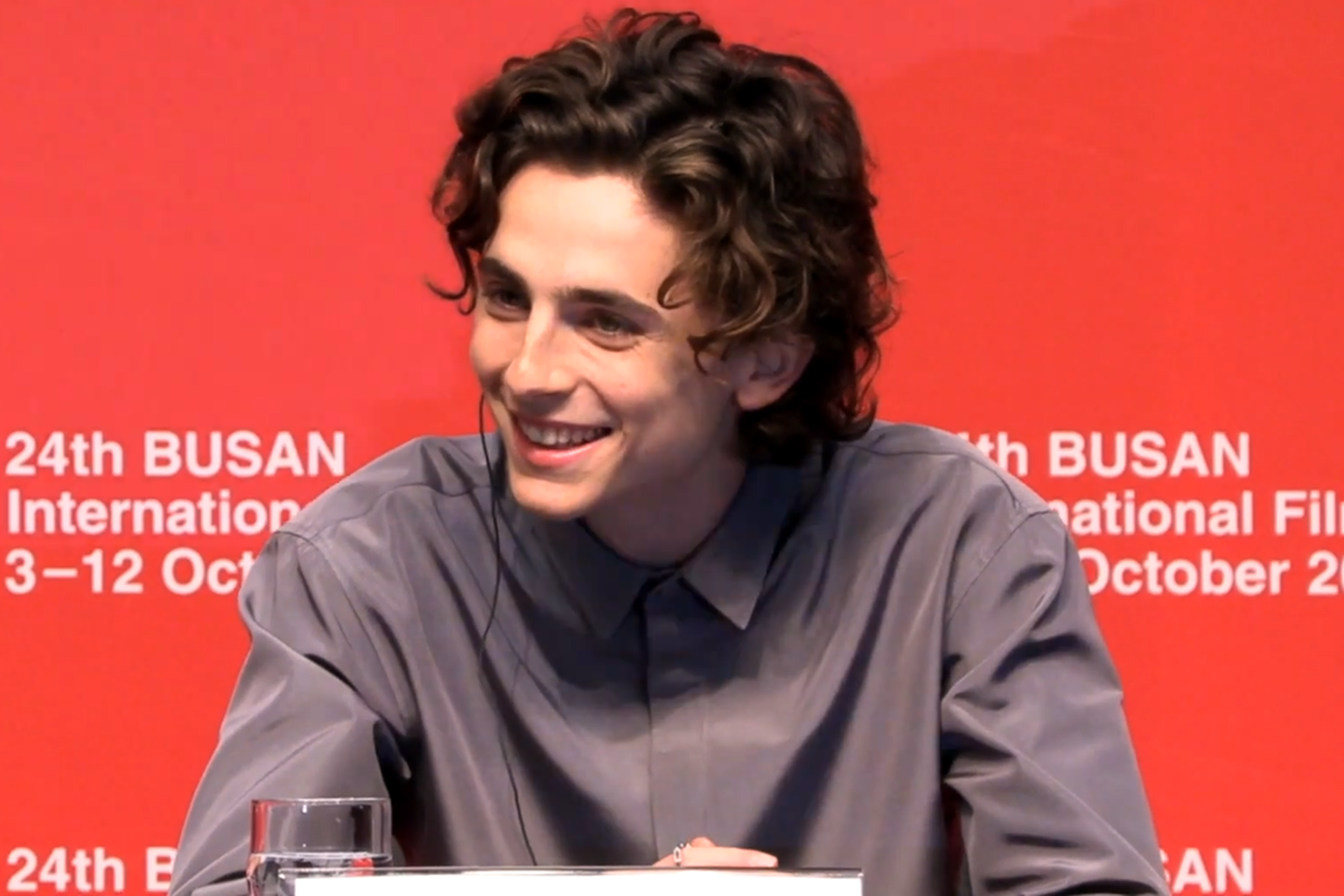 Timothée Chalamet during the press conference of The King at the 24th Busan International Film Festival on October 8, 2019.